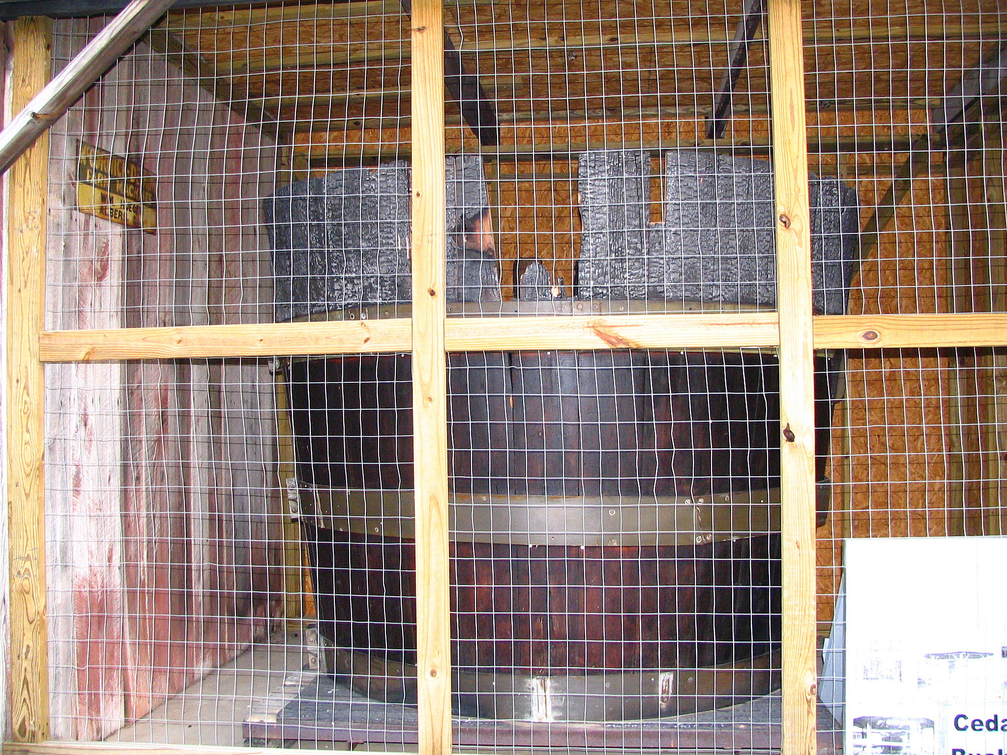 The World's Largest Cedar Bucket at Cannonsburgh Village in Murfreesboro, Tennessee. Made in 1887, it held 1566 gallons (that is, if it didn't have so many holes in it. This is the good side.) It's in rather bad shape as it was torched by arsonists in 2005.